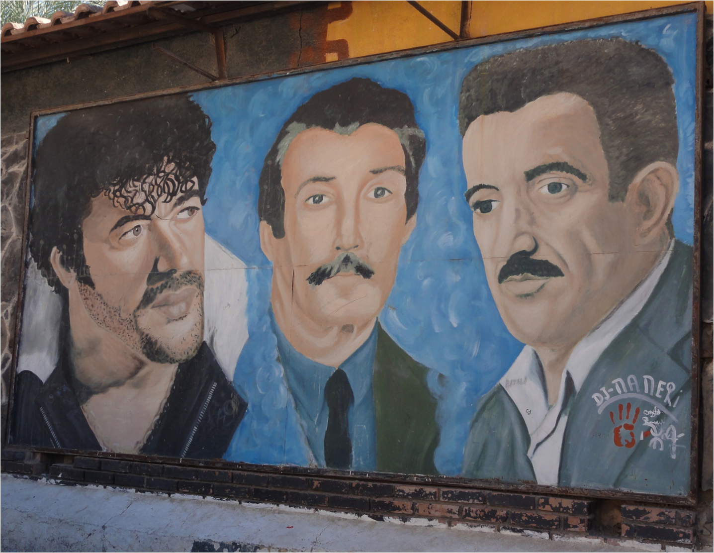 Monument in Bounouh